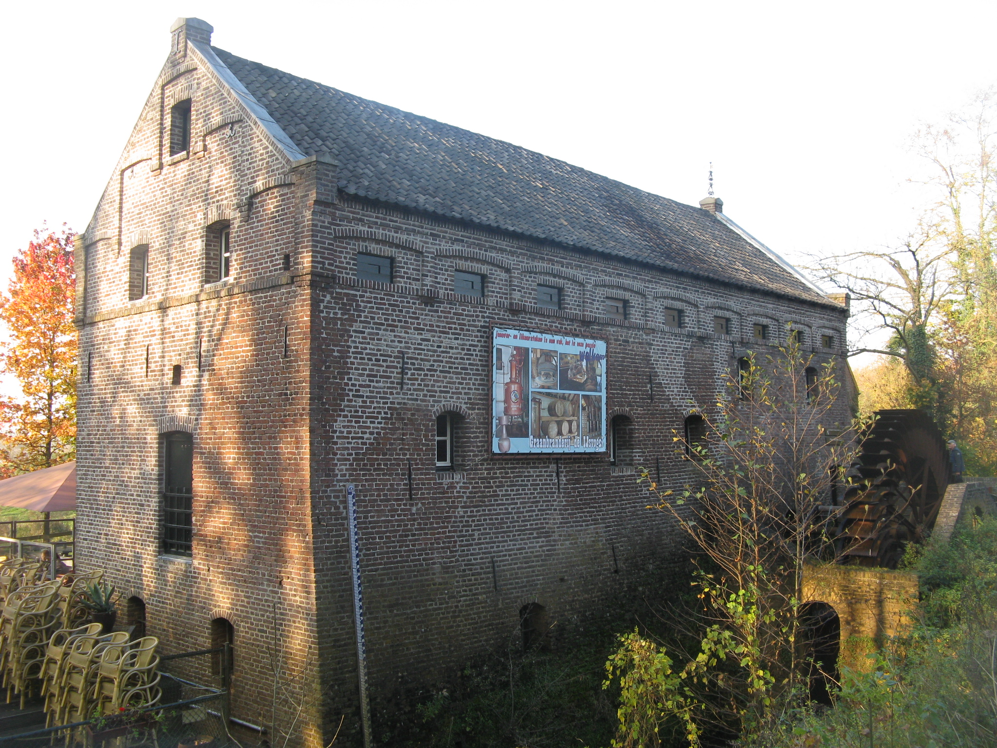 Wijmarsche Watermolen (former grain mill, now liquor destillery), Arcen, The Netherlands